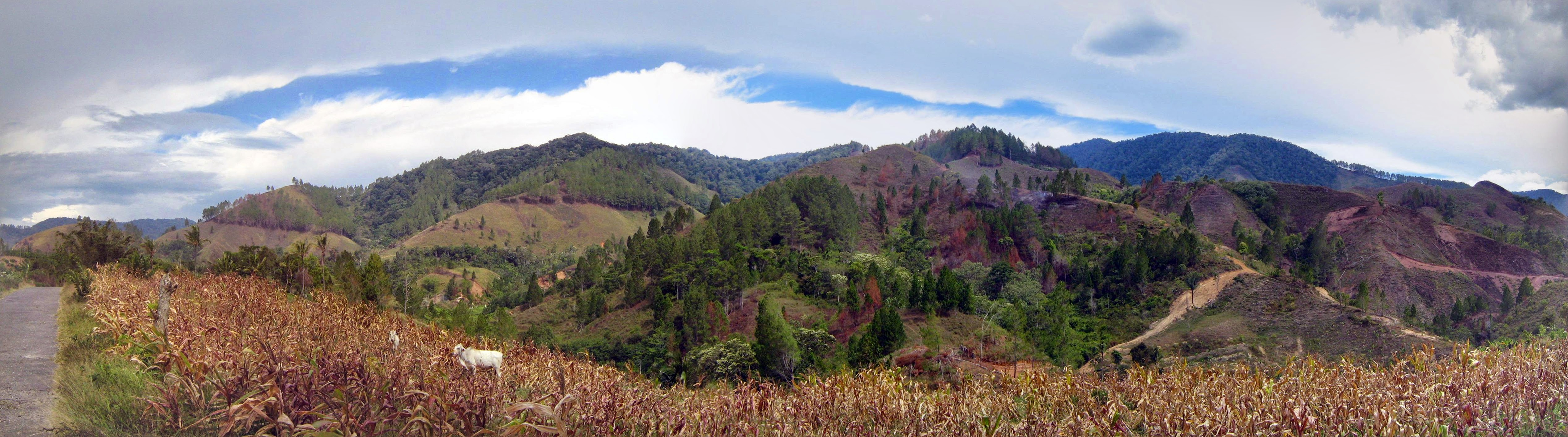 Uruk Desa Nageri Juhar